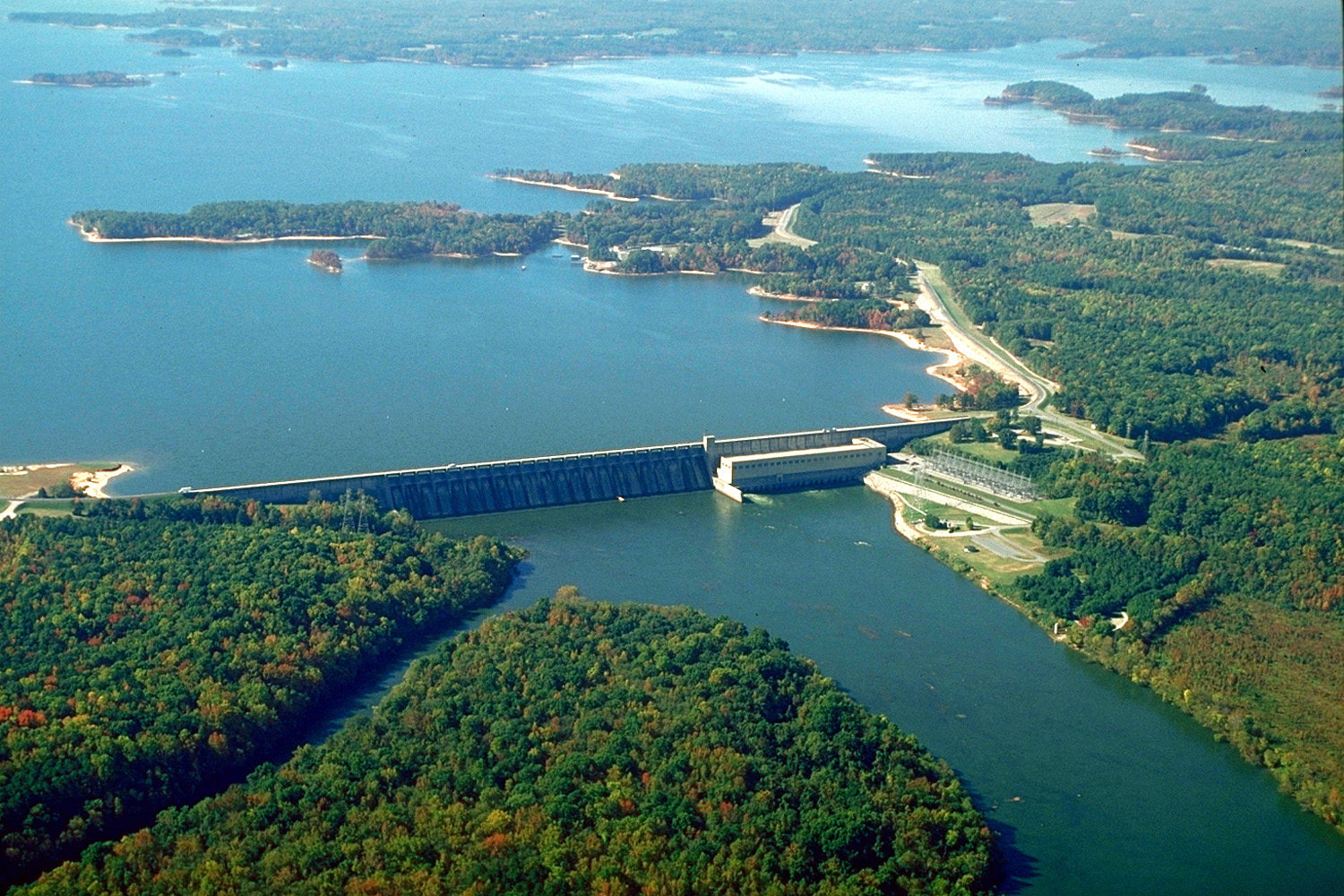 The John H. Kerr Dam and Lake on the Roanoke River in Mecklenburg County, Virginia, USA. The U.S. Army Corps of Engineers constructed the dam for flood control on the Roanoke River. View is to the south-southwest. Coordinates: 36°35′53.76″N 78°17′53.63″W / 36.5982667°N 78.2982306°W